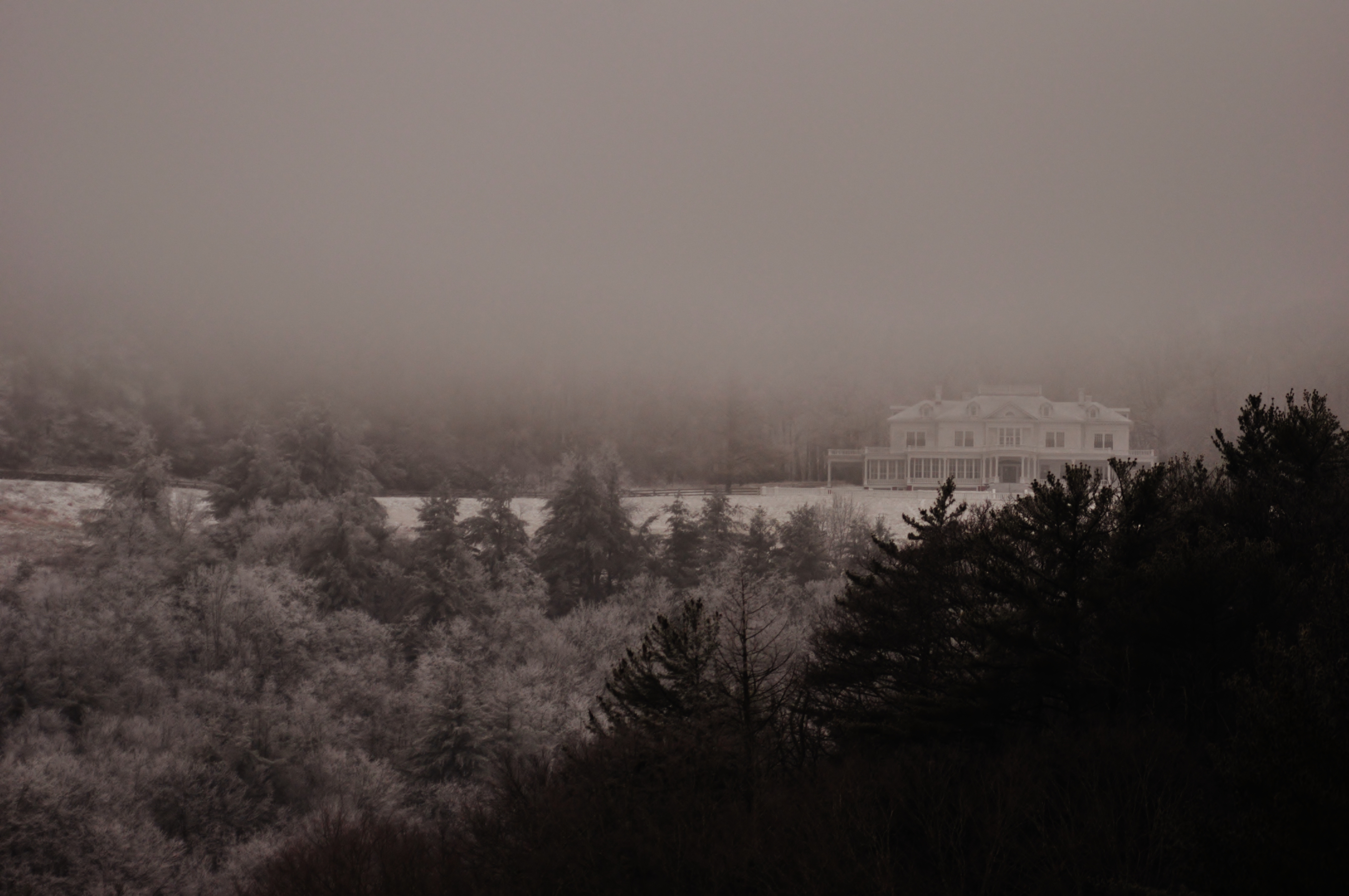 From Bass Lake, Blowing Rock, North Carolina